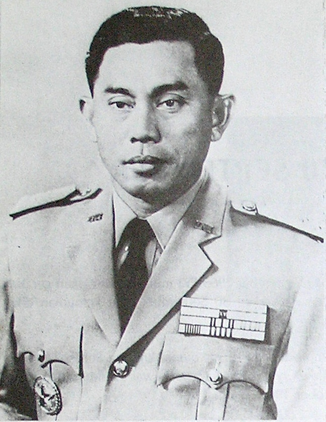 Lt. Gen. Ahmad Yani, Indonesian Army Commander killed in 1965